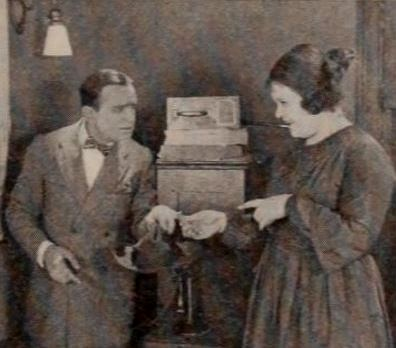 Still from the American comedy film When the Clouds Roll By (1919) with Douglas Fairbanks and an unidentified actress, on page 61 of the January 10, 1920 Exhibitors Herald.